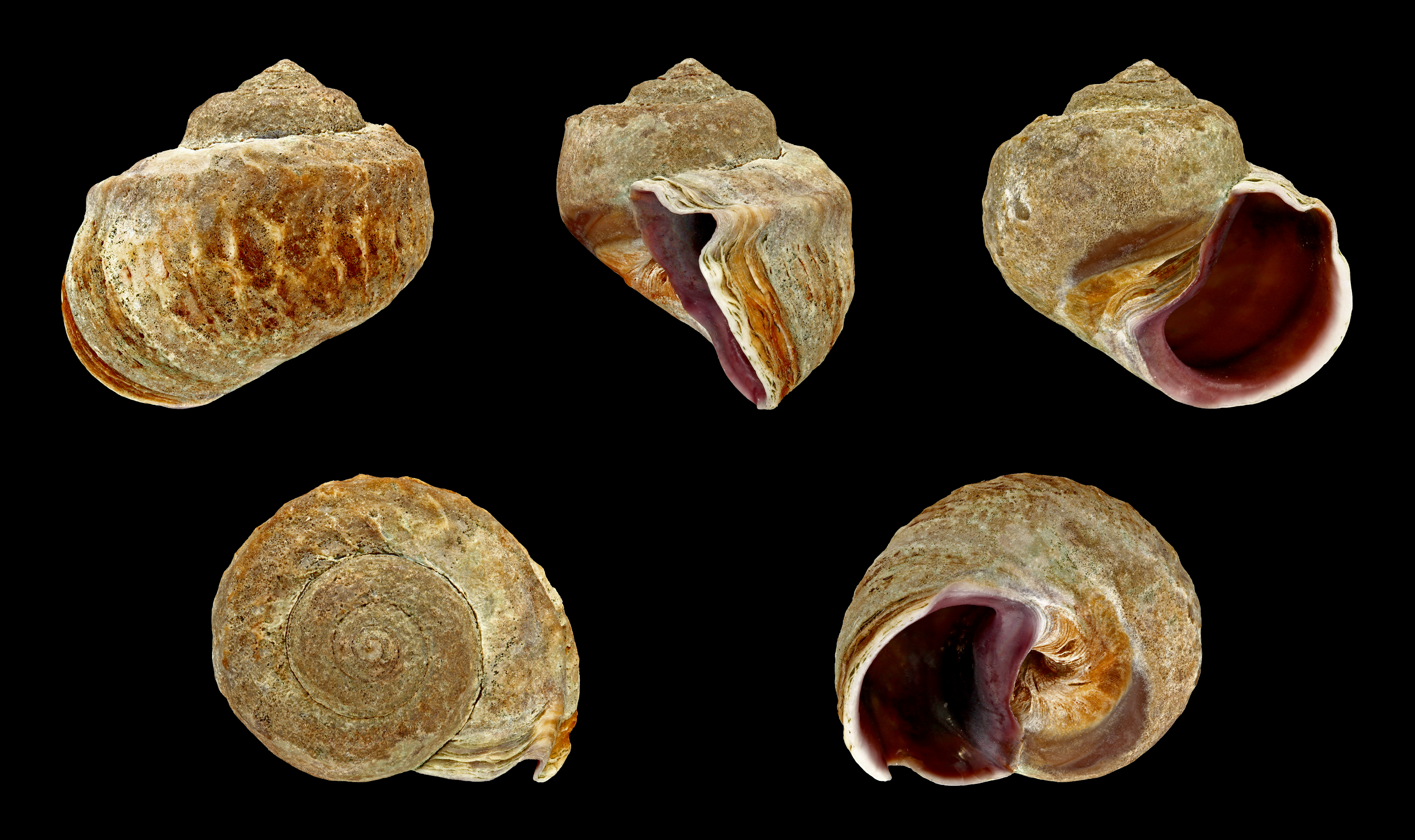 New Zealand Titiko; Diameter 2.2 cm; Kaiteriteri, Tasman District, New Zealand; Shell of own collection, therefore not geocoded. Dorsal, lateral (right side), ventral, back, and front view.